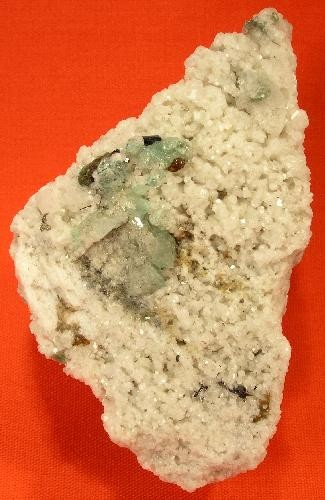 Phosphophyllite Locality: Hagendorf North Pegmatite (Meixner Feldspar Pit), Waidhaus, Vohenstrauß, Oberpfälzer Wald, Upper Palatinate, Bavaria, Germany (Locality at ) Size: 5.3 x 3.3 x 2.7 cm. A set of light blue, gemmy Phosphophyllites lying flat on a white Quartz matrix. Hagendorf is the Type Locality for Phosphophyllite, which was discovered in 1920. These crystals, are moderately well-developed, range up to .6 cm in length, have good luster and good gemminess. They are important and attractive Phosphos from the Type Locality! Ex. Charlie Key.